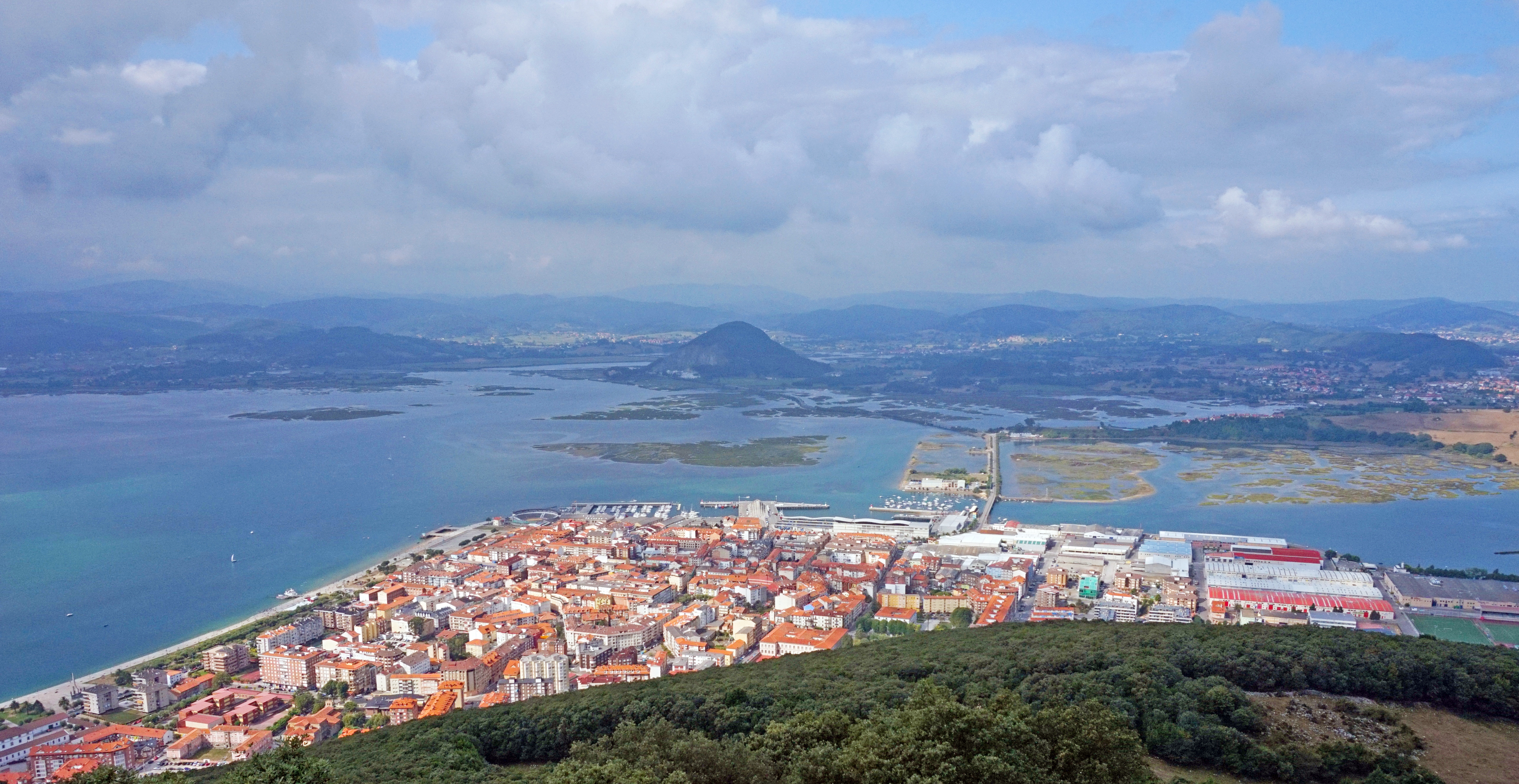 View from Monte Buciero in Santoña, Spain.This photograph was taken with a Sony ILCE-5000